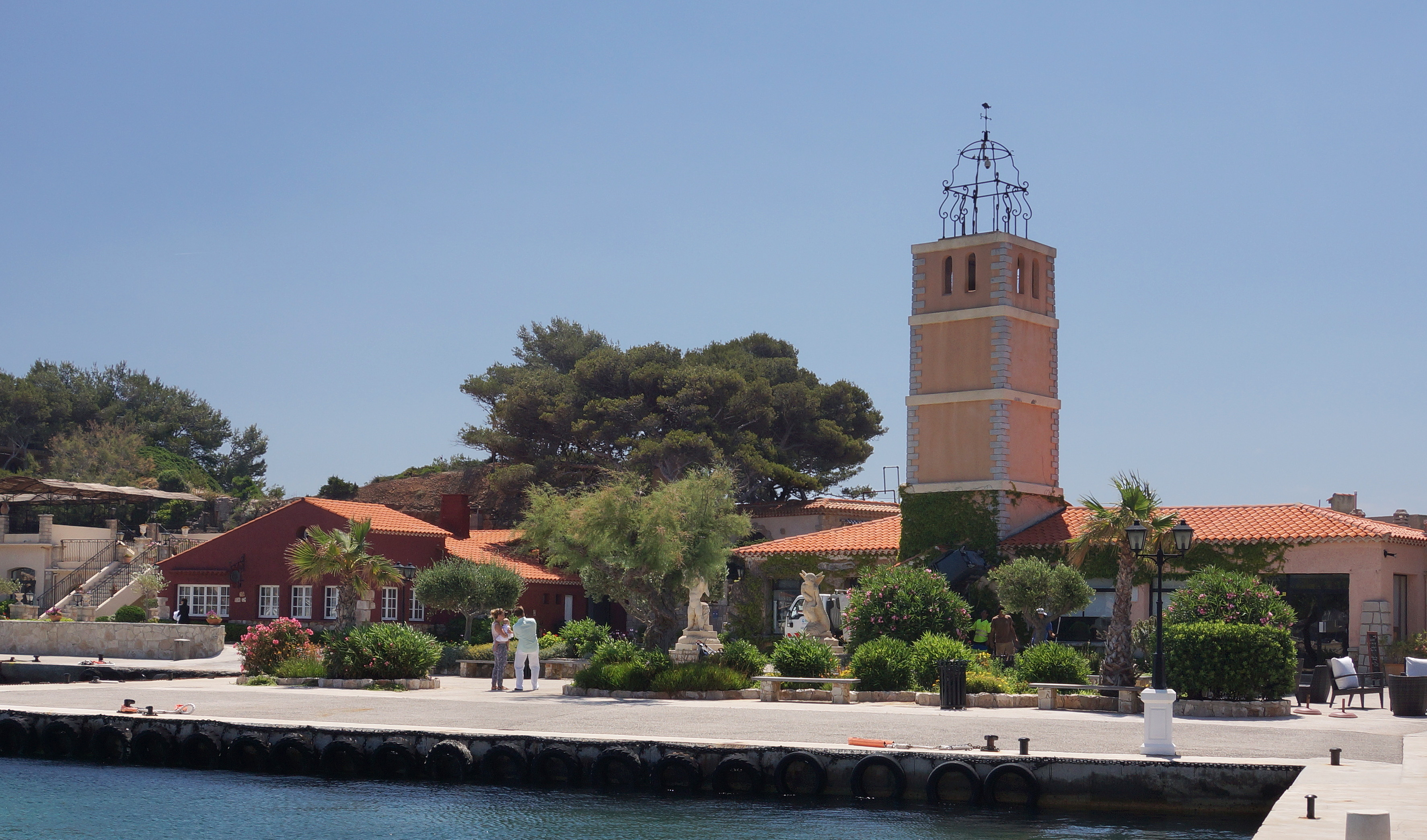 Harbour square, Bendor island, Bandol, PACA, France